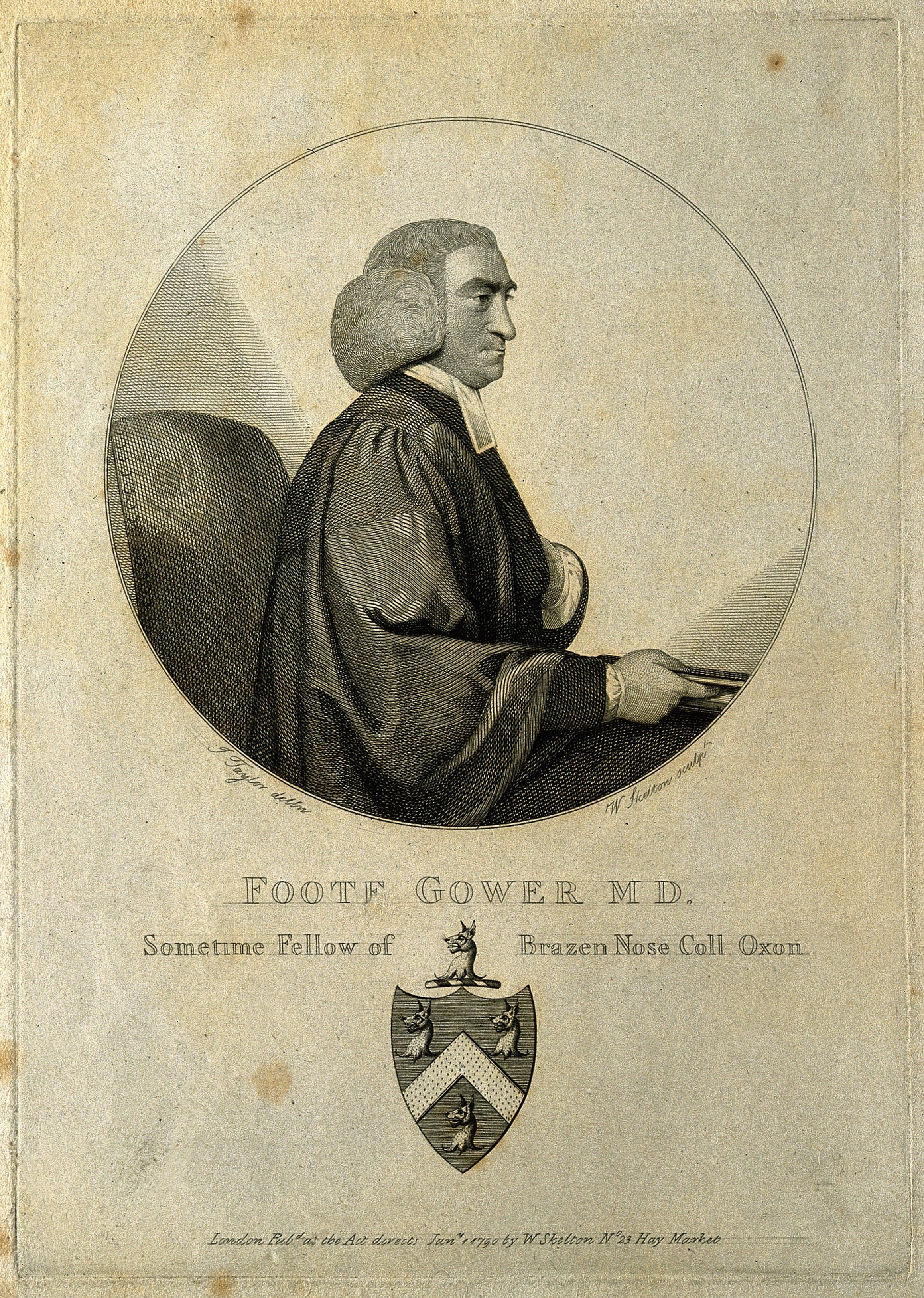 Foote Gower. Line engraving by W. Skelton, 1790, after J. Taylor. Iconographic Collections Keywords: portrait prints; engravings; Foote Gower